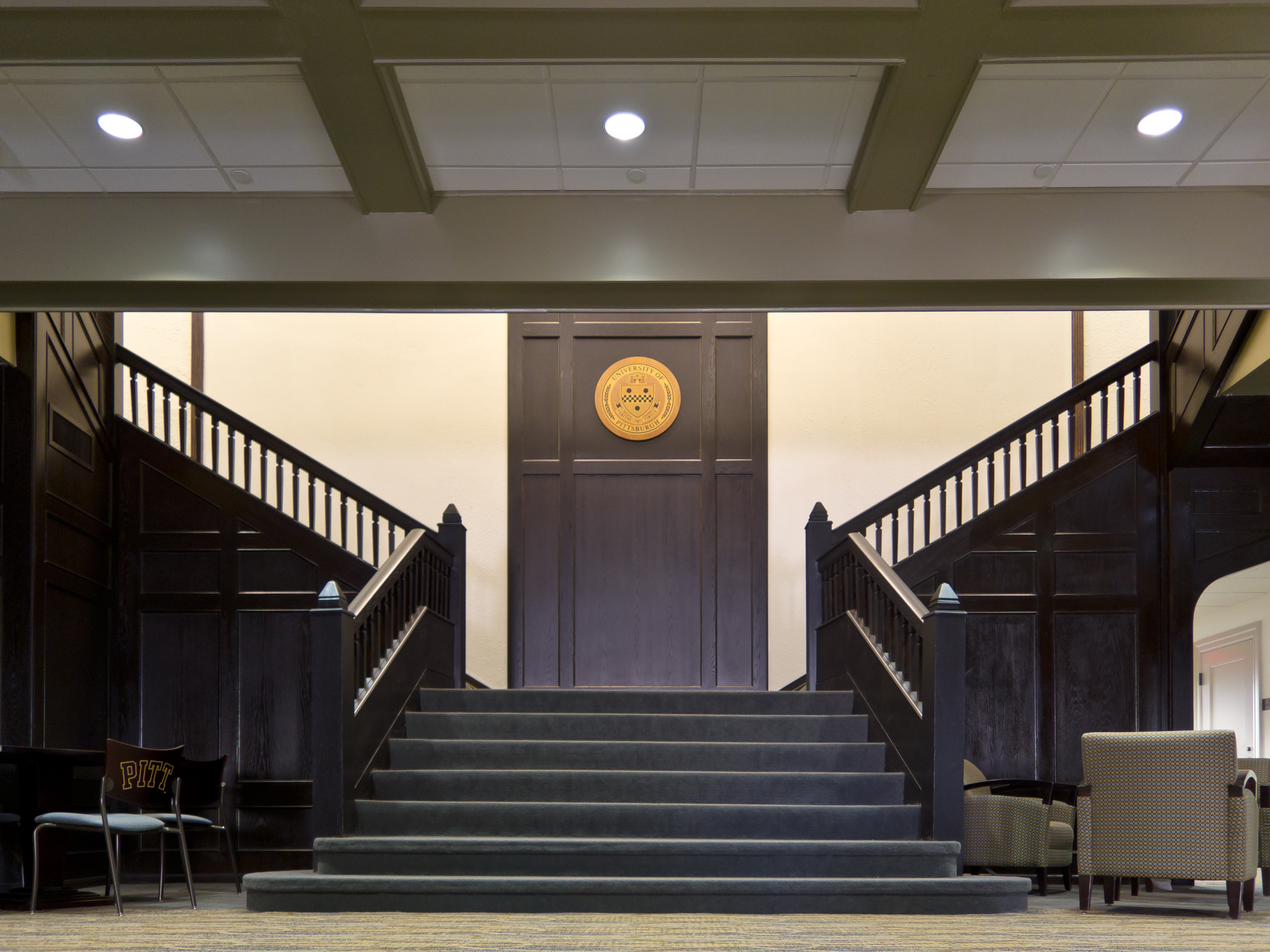 The staircase in on the first level of the newly-rennovated O'Hara Student Center at the University of Pittsburgh.